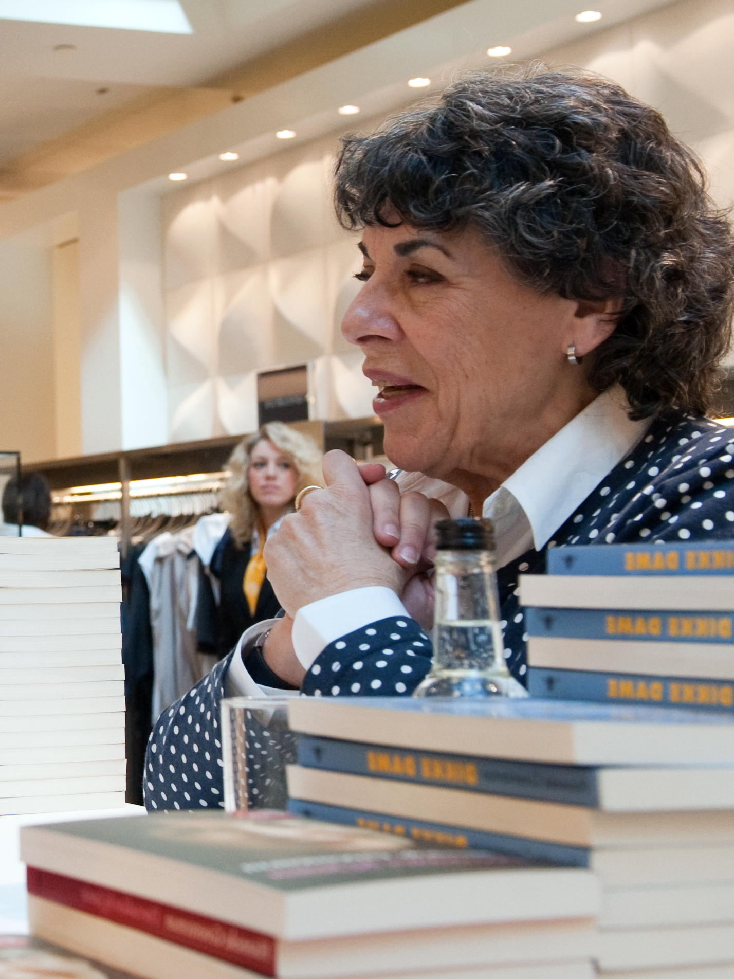 Cropped and mirrored version of File:Hanneke Groenteman.jpg